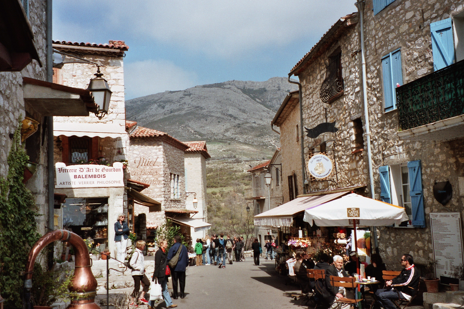 selfmade photography 2006, first week of april center of the small village gourdon, alpes-maritimes, france photographer contact: de-Wikipedia-user Otto Normalverbraucher